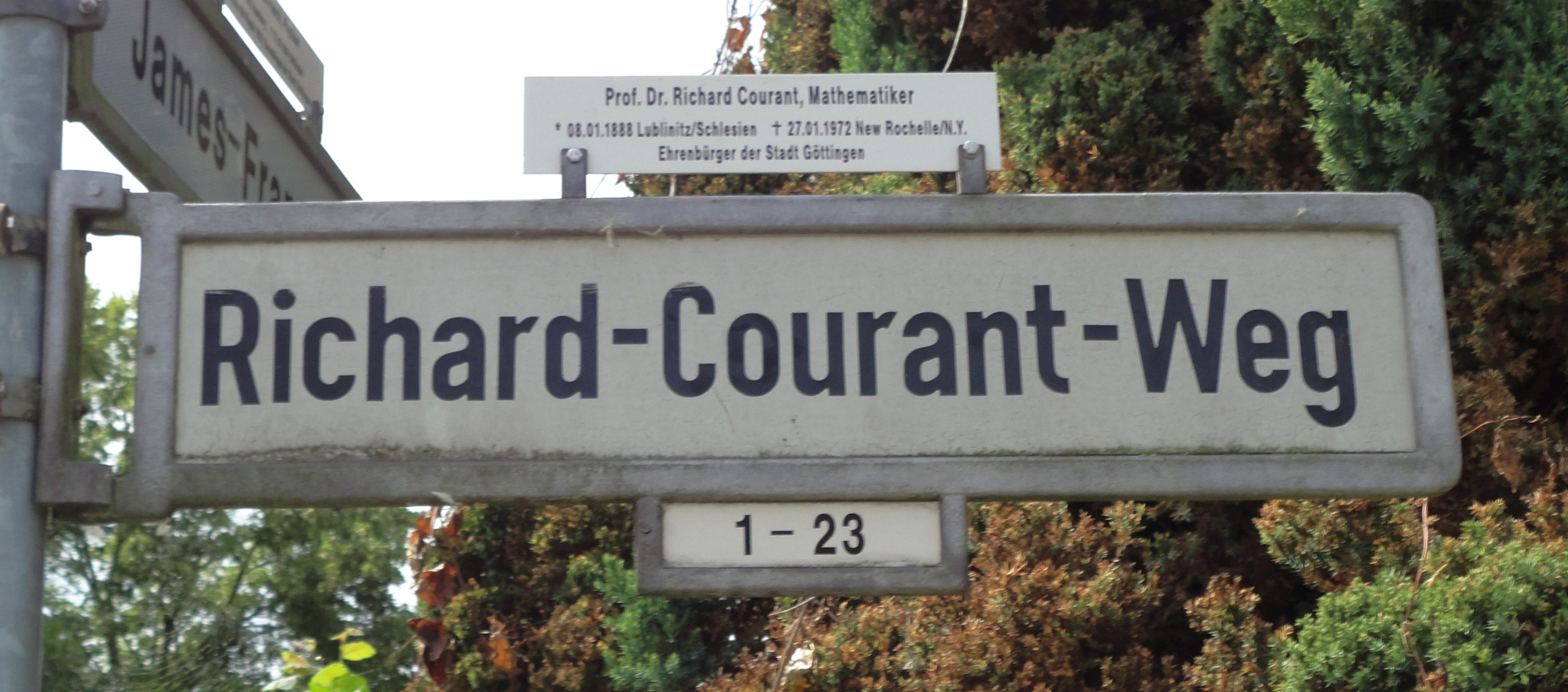 Göttingen-Weende, road sign Richard-Courant-Weg